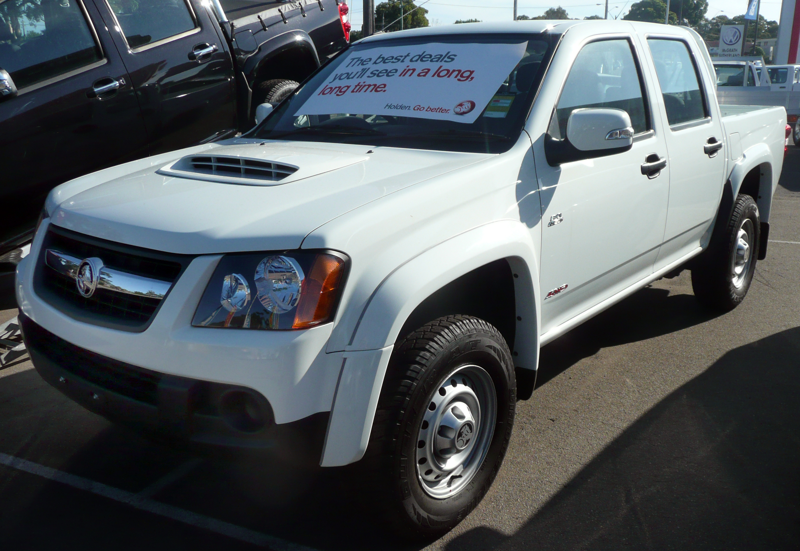 2008 Holden Colorado (RC) LX Crew Cab 4-door utility. Photographed at McGrath Sutherland Holden, Kirrawee, New South Wales, Australia.